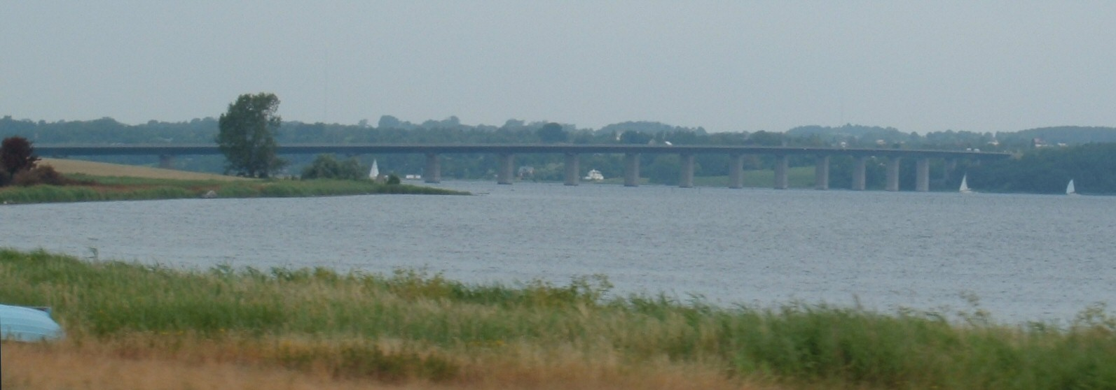 Northern section of Farø Bridge from the island of Farø to Zealand in south eastern Denmark. Viewed looking North-West from Bogø alongside approach road to Farø and bridge junction. Taken by contributor July 2006